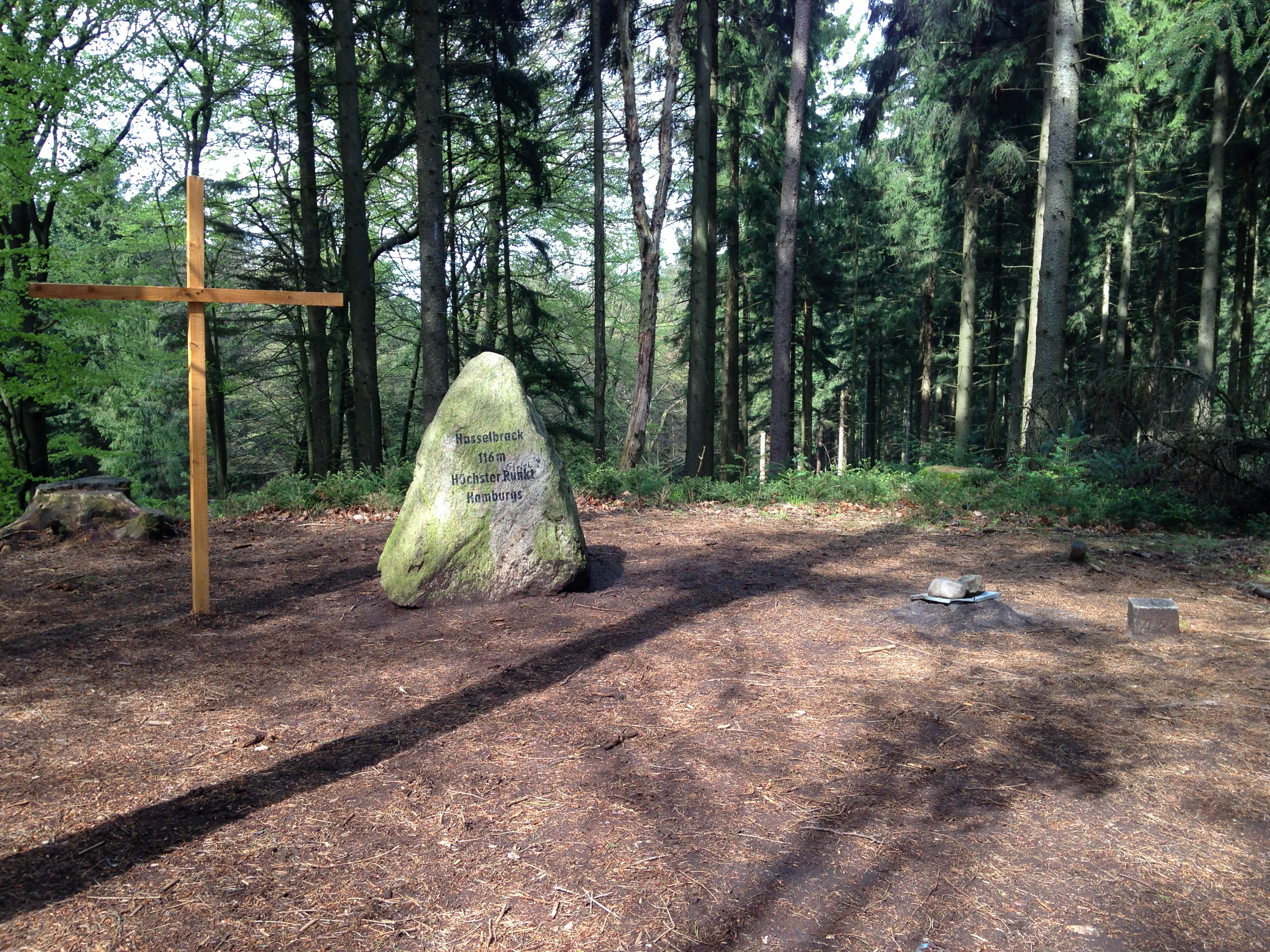 Highest elevation in Hamburg